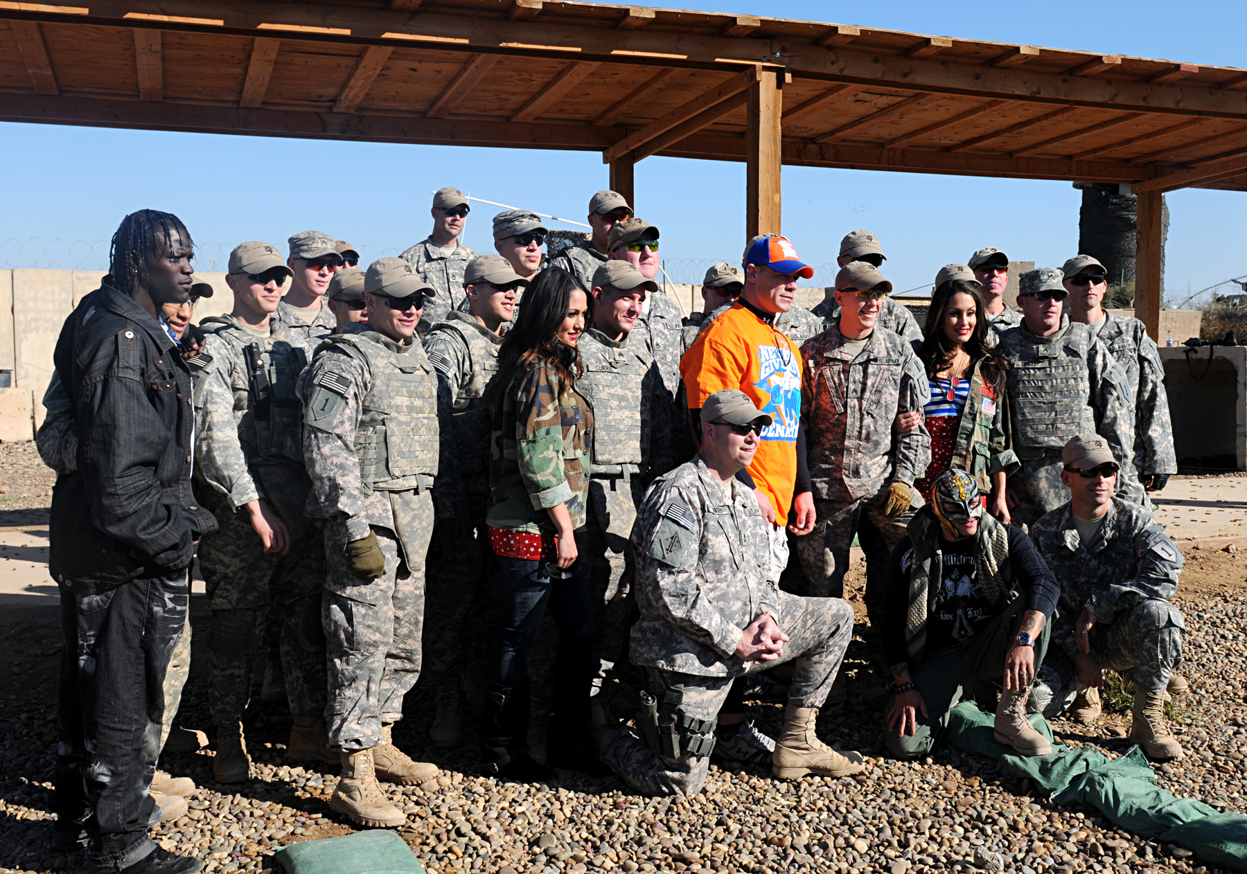 Several Soldiers of 1st Battalion, 28th Infantry Regiment, 4th Infantry Brigade Combat Team, 1st Infantry Division join six World Wrestling Entertainment superstars for a holiday shout out from Forward Operating Base Paliwoda, Dec. 3.